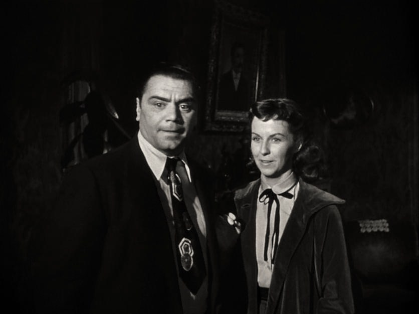 Ernest Borgnine & Betsy Blair in Marty - trailer (cropped screenshot)